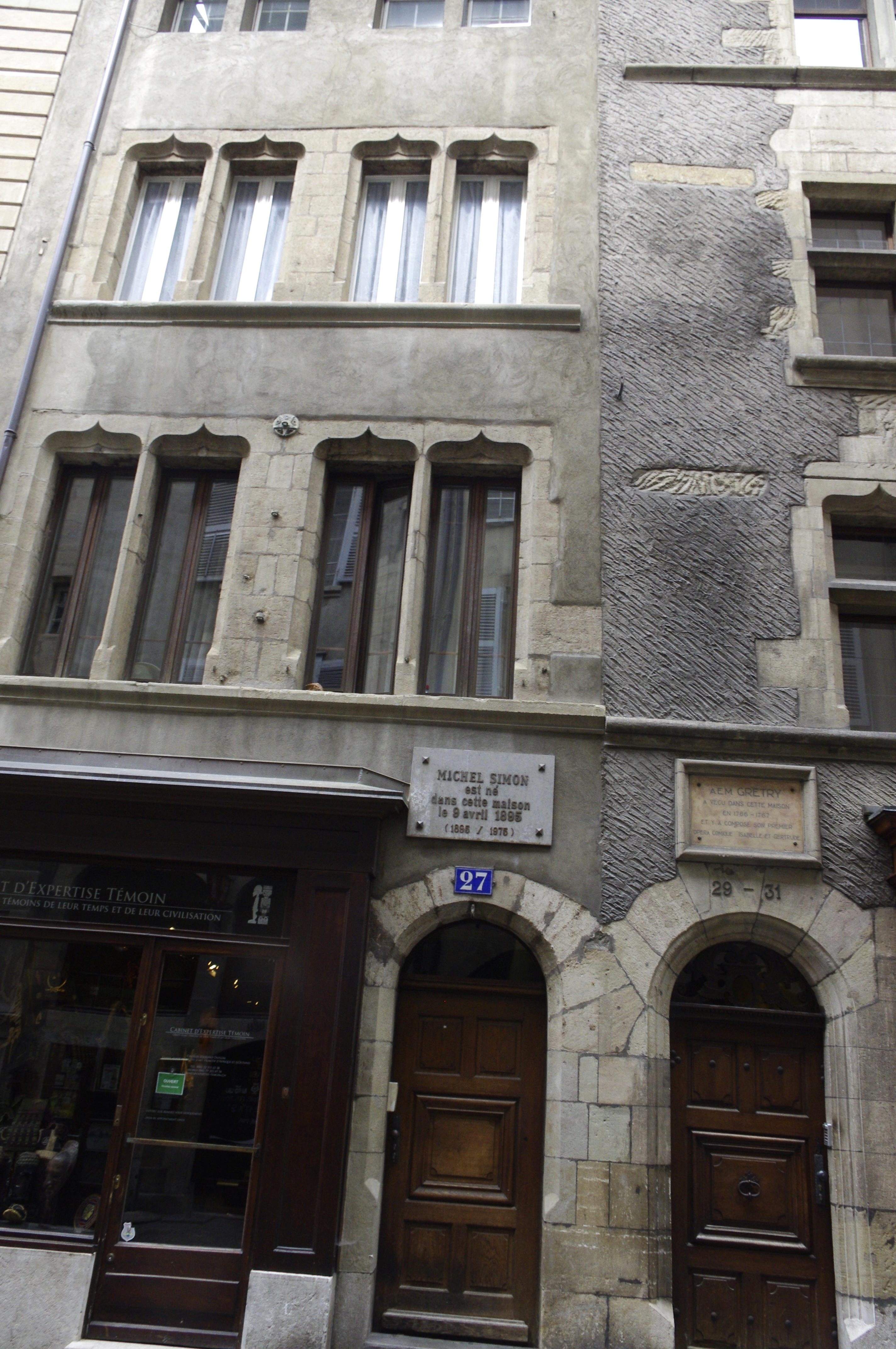 Geneva - Grand-Rue Nr 27 (birth house of Michel Simon) and 29-31 (here lived 1766-1767 the composer André-Ernest-Modeste Grétry